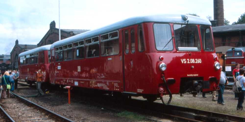 DR class VT 2.09 / VS 2.08 Ferkeltaxe